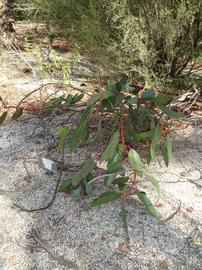 Photographed at Maranoa Gardens, Melbourne, Victoria, Australia by HelloMojo 09:06, 6 April 2007 (UTC)